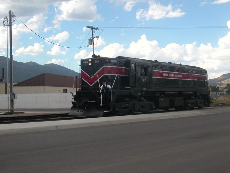 Heber Valley Railroad EMD MRS-1 locomotiveDiesel Engine